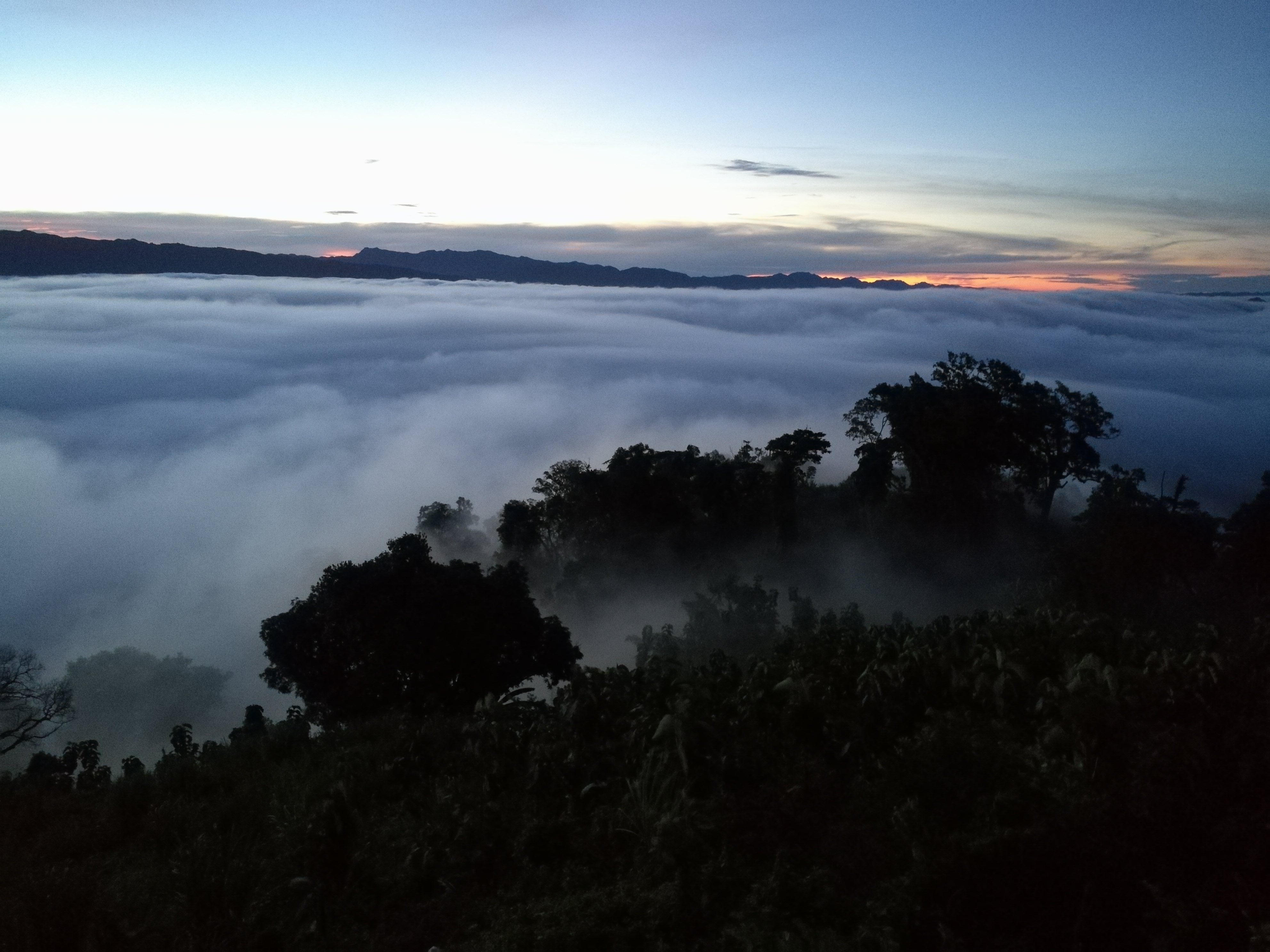 SajekSight